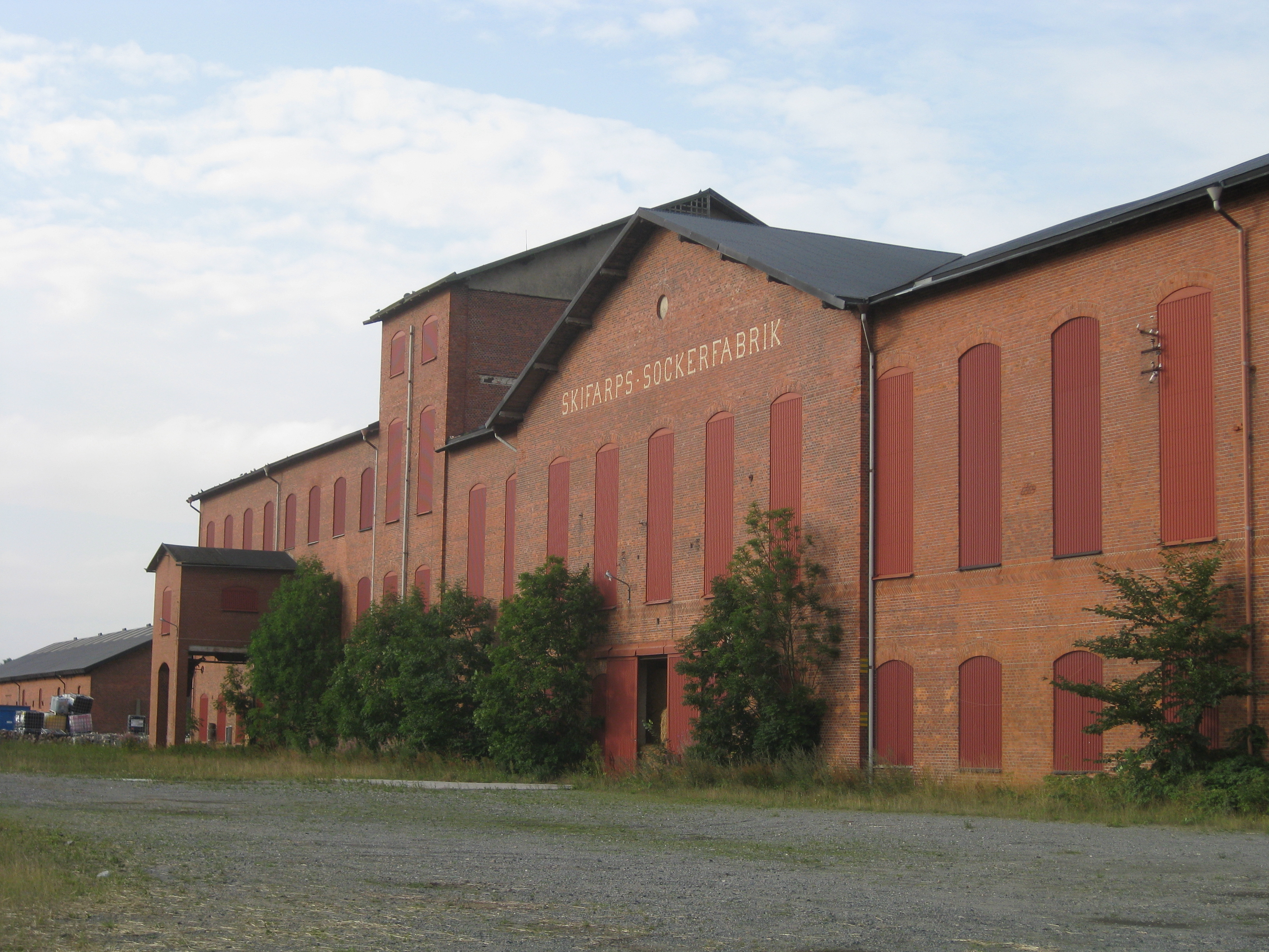 Skivarp sugar factory in Skivarp, Scania, Sweden. It was in production between 1901 and 1960.